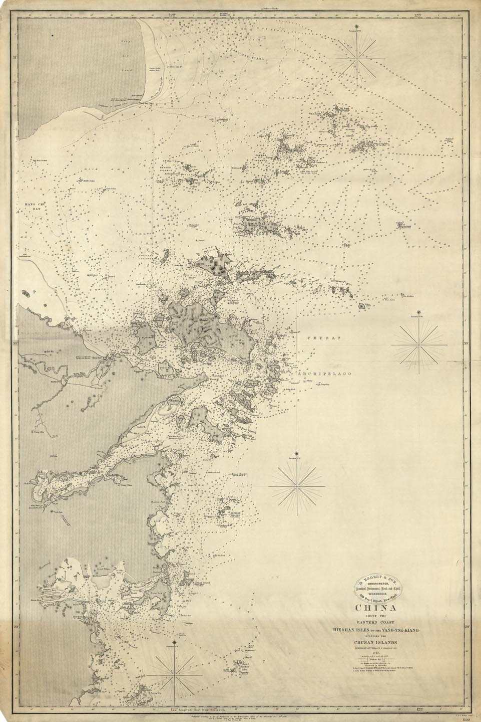 China Sheet VIII: Eastern Coast: Hieshan Isles to the Yang-Tse-Kiang, Including the Chushan Islands, Surveyed by Captains Kellet & Collinson, R.N.